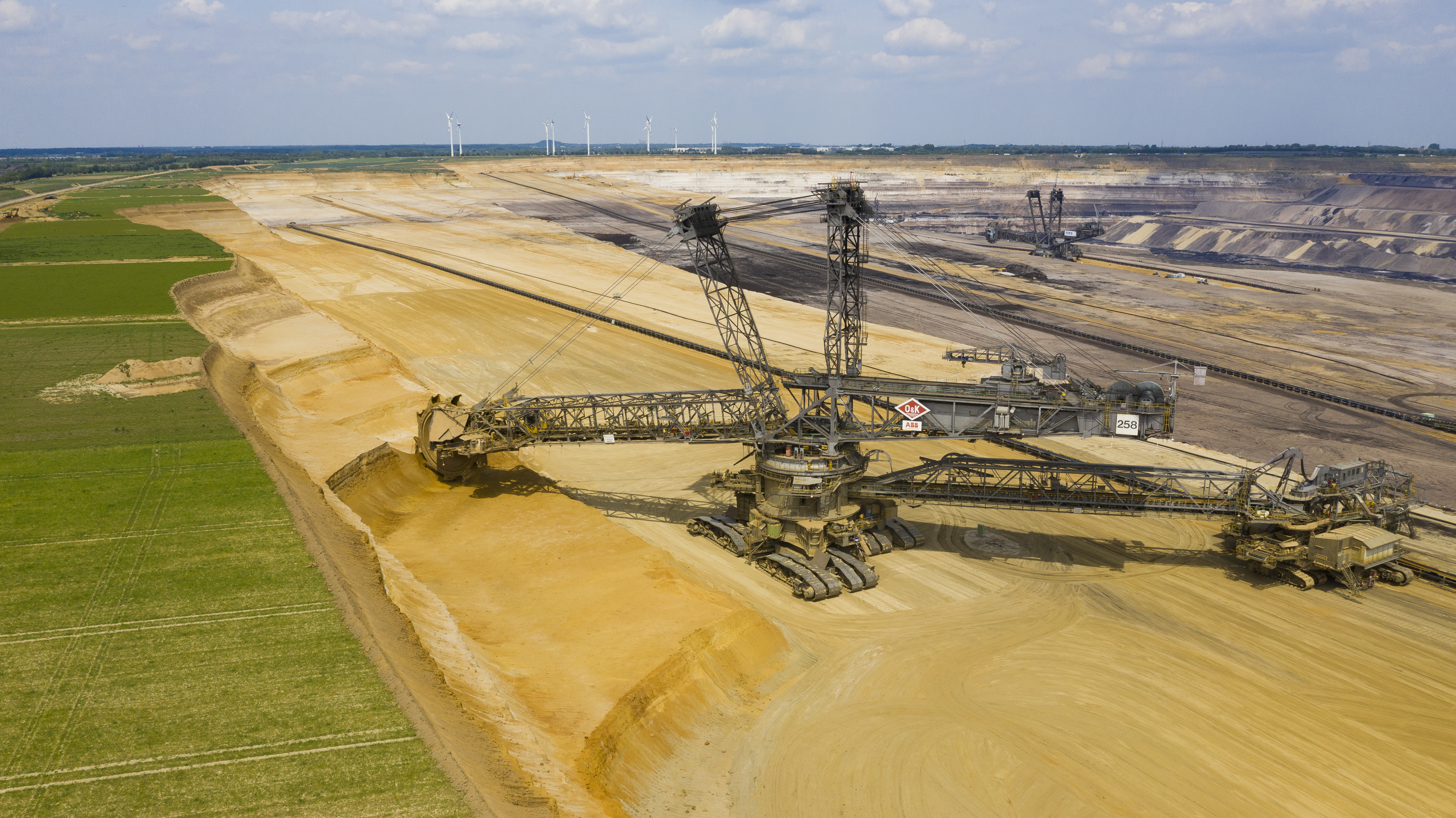 Bucket-wheel excavators (Bagger 258 in the foreground) in Garzweiler surface mine near Keyenberg, Germany.